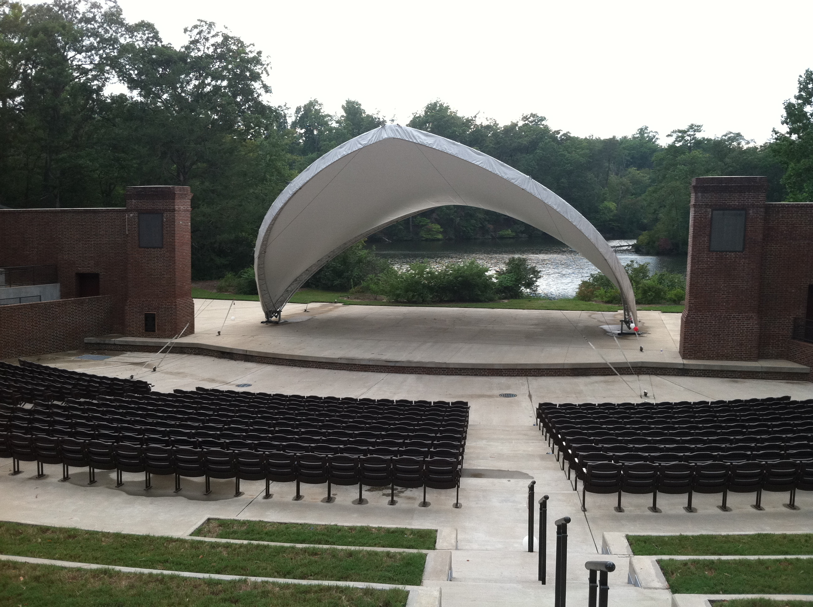 This photo was self-taken by user Kjst.wm.tribe.2015 of the Lake Matoaka Amphitheater located on the campus of William and Mary immediately adjacent to the aforementioned lake on September 5, 2011. The photo was taken looking down on to the stage and canopy with the rows of permanent seats in view.